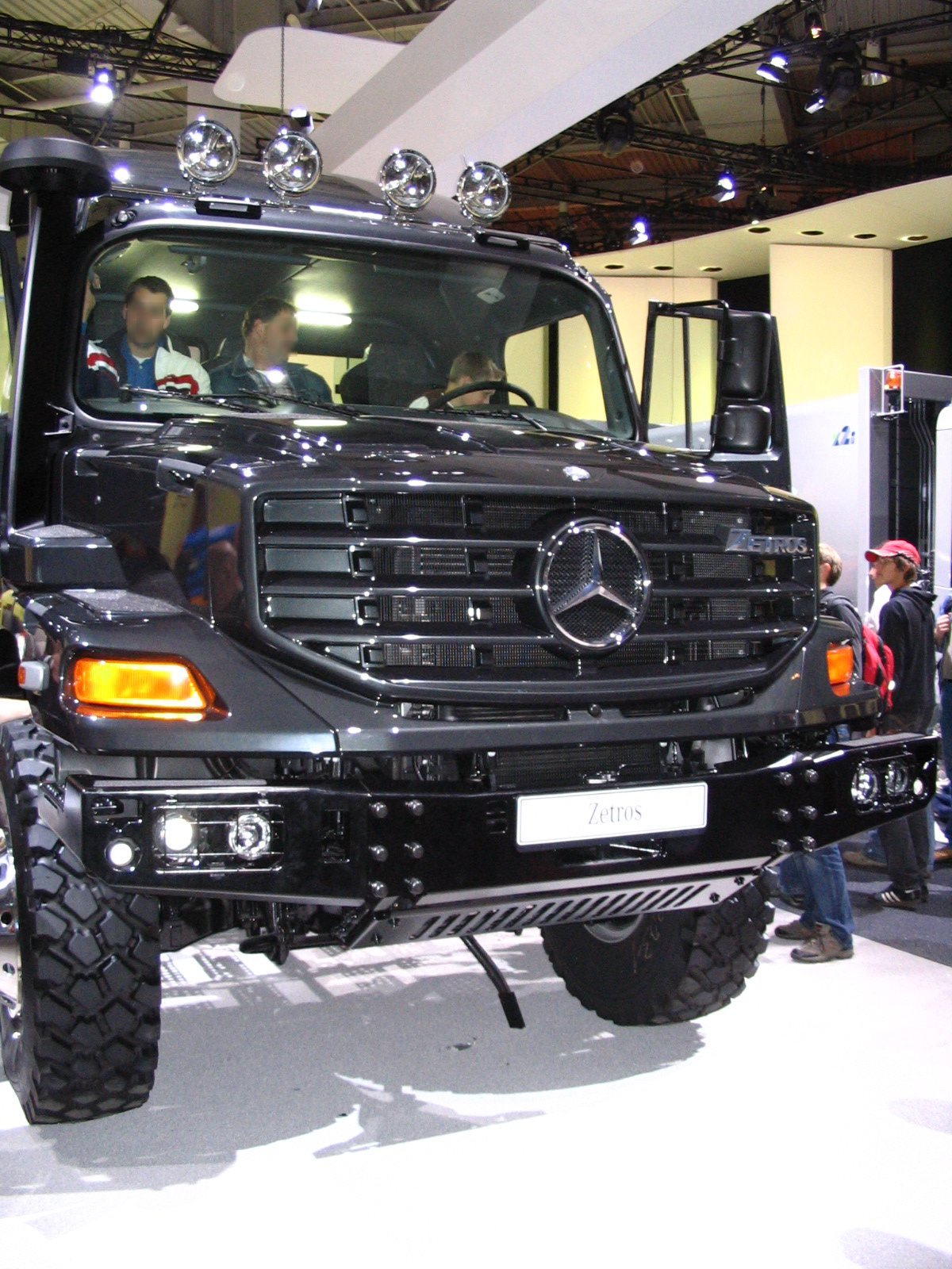 Mercedes-Benz Zetros at the 62nd IAA Commercial Vehicles in Hannover (Germany).